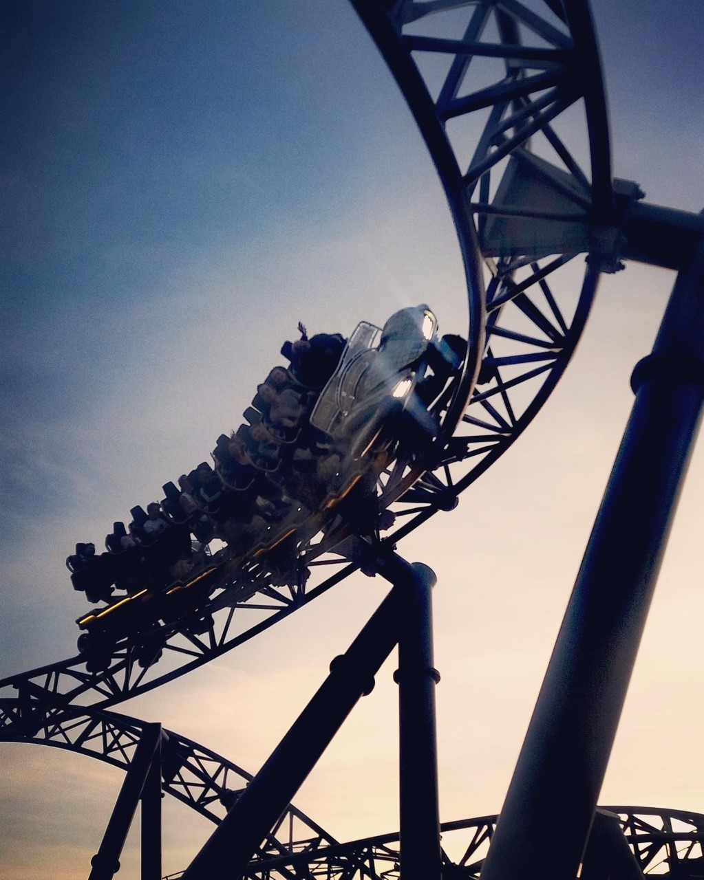 Icon train with lighting as shot by Marc Dawson